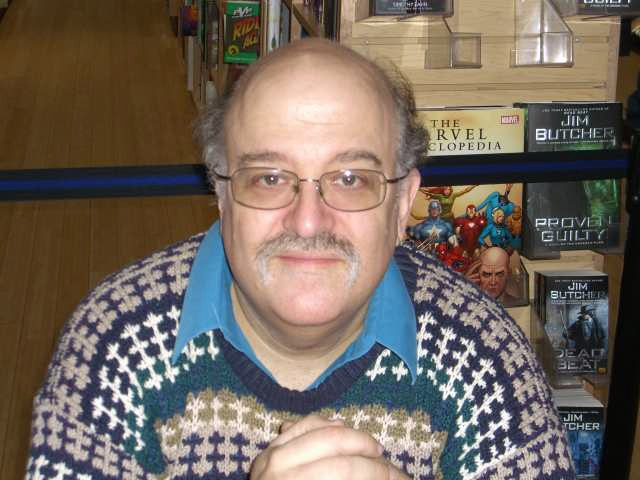 Writer Peter David, at the February 7, 2007 signing of The Dark Tower: The Gunslinger Born at Midtown Comics in Times Square, New York City. Photo by Luigi Novi. This photo may be used for any purpose, provided that the photographer is visibly credited in each instance where it is used (See Licensing information below). For further information on the Licensing requirements, contact me here. This photo was created by Luigi Novi. It is not in the public domain, and use of this file outside of the licensing terms is a copyright violation.